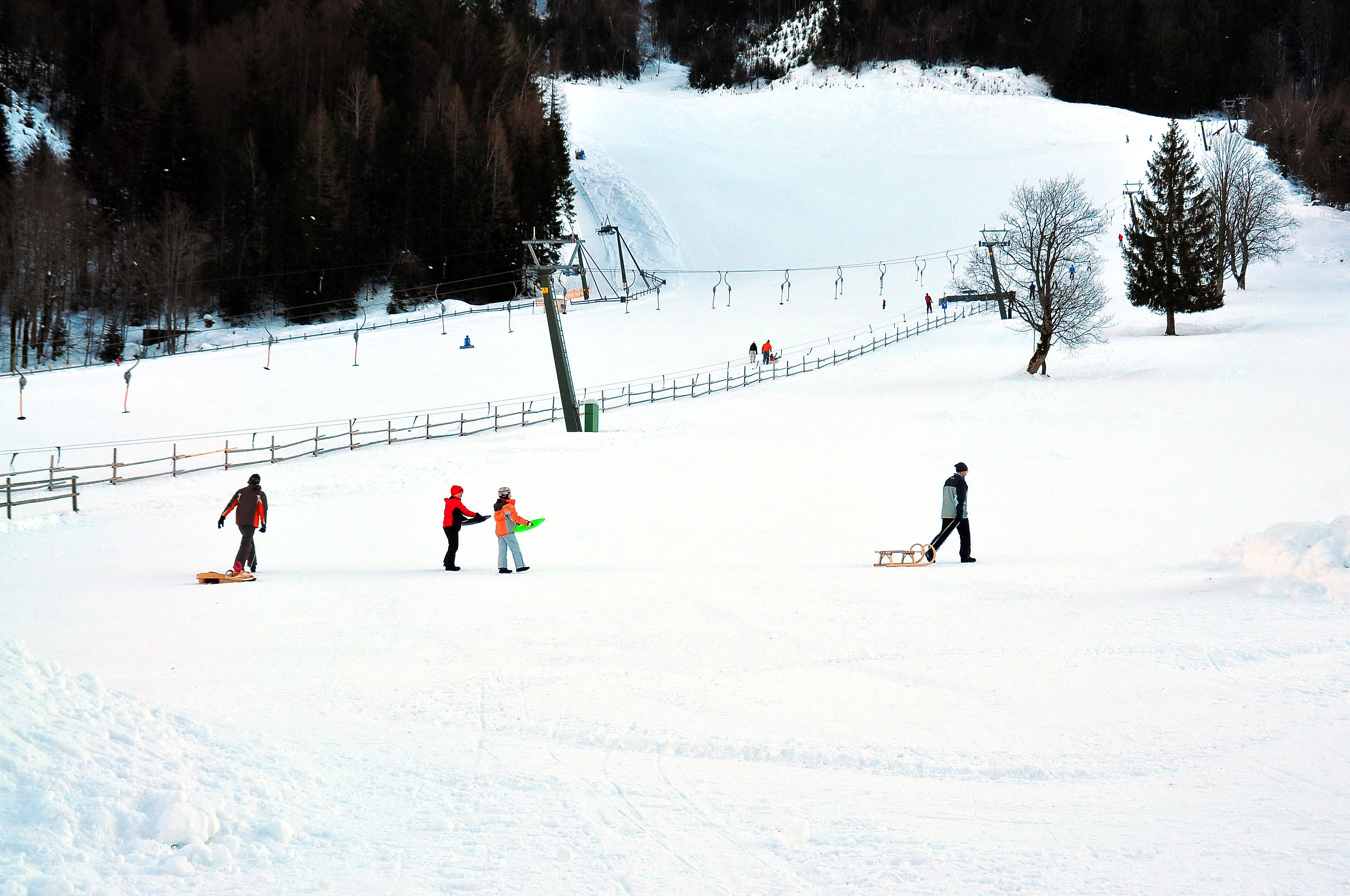 Center for winter activities and sports in the Bodental, municipality of Ferlach, Carinthia, Austria